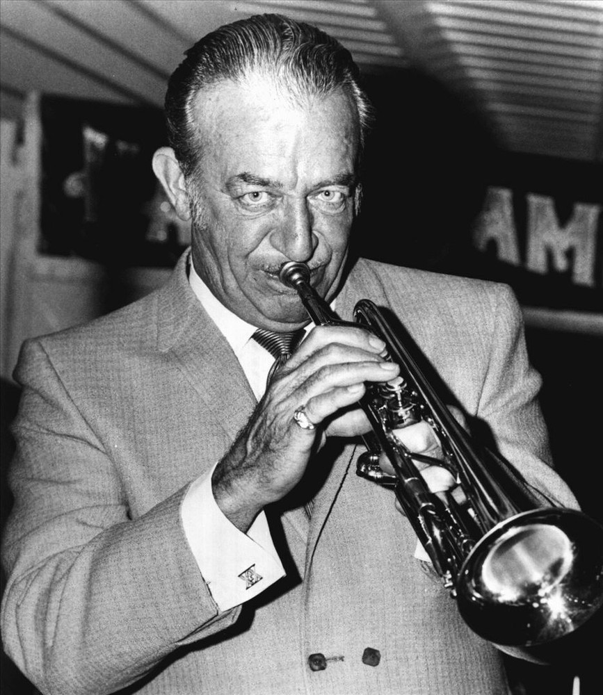 Publicity photo of the trumpet-playing American bandleader Harry James, circa 1975.